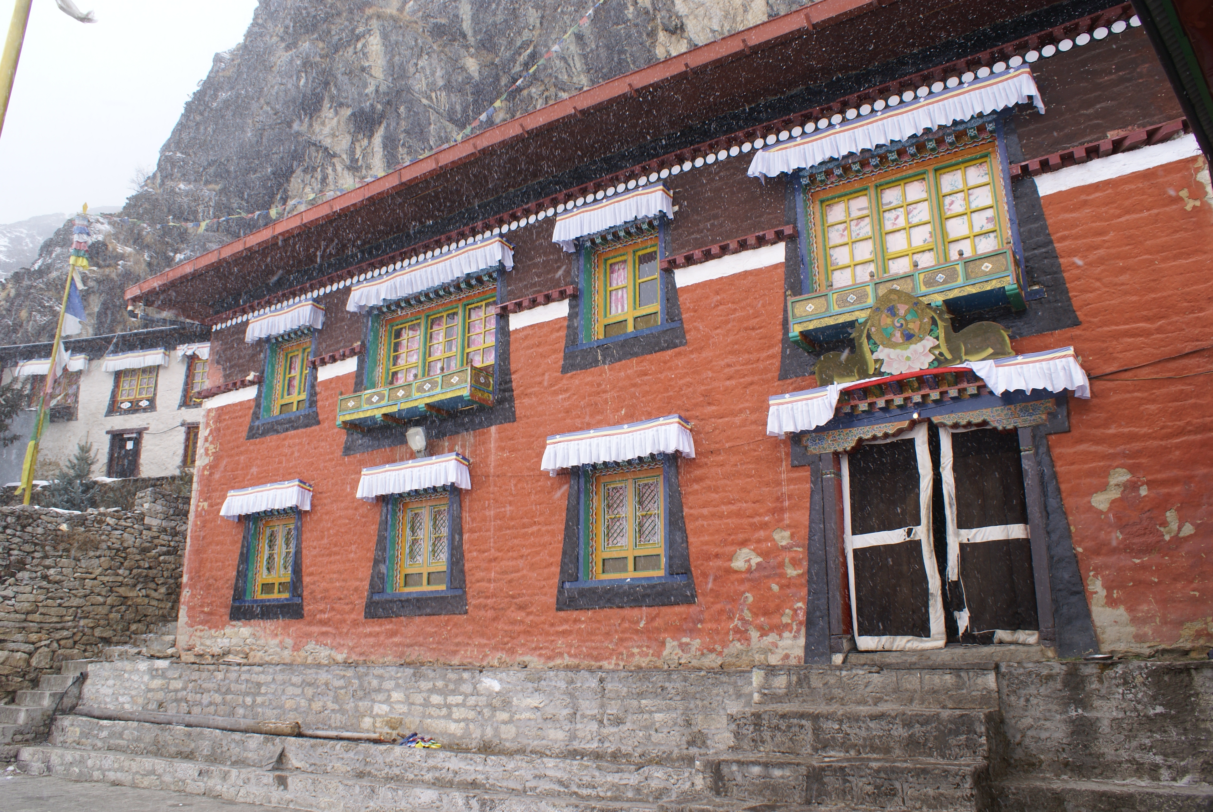 Thame Gompa in Thame village, Nepal.